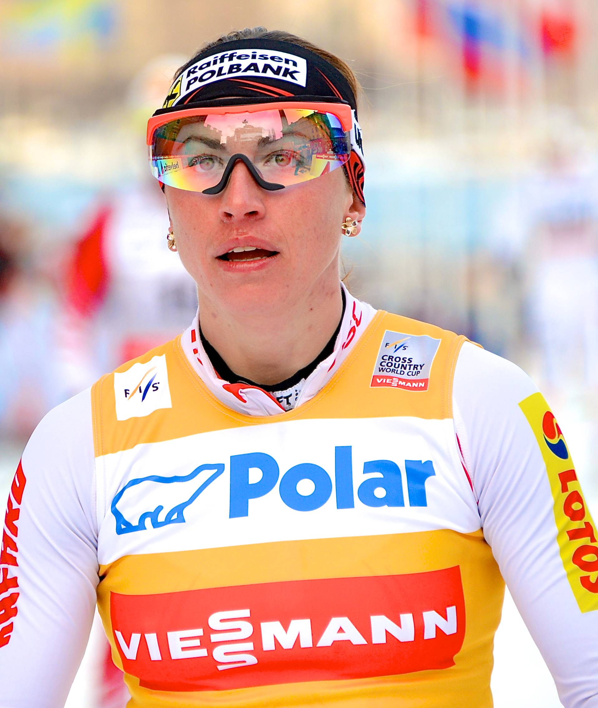 Justyna Kowalczyk at the på Royal Palace Sprint in Stockholm 2013.